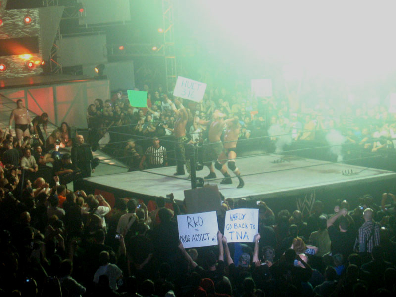 DX and John Cena performing the DX pyro